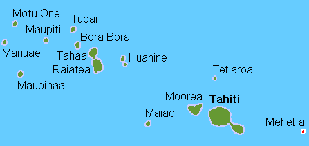 Location of Mehetia within Society Islands, French Polynesia